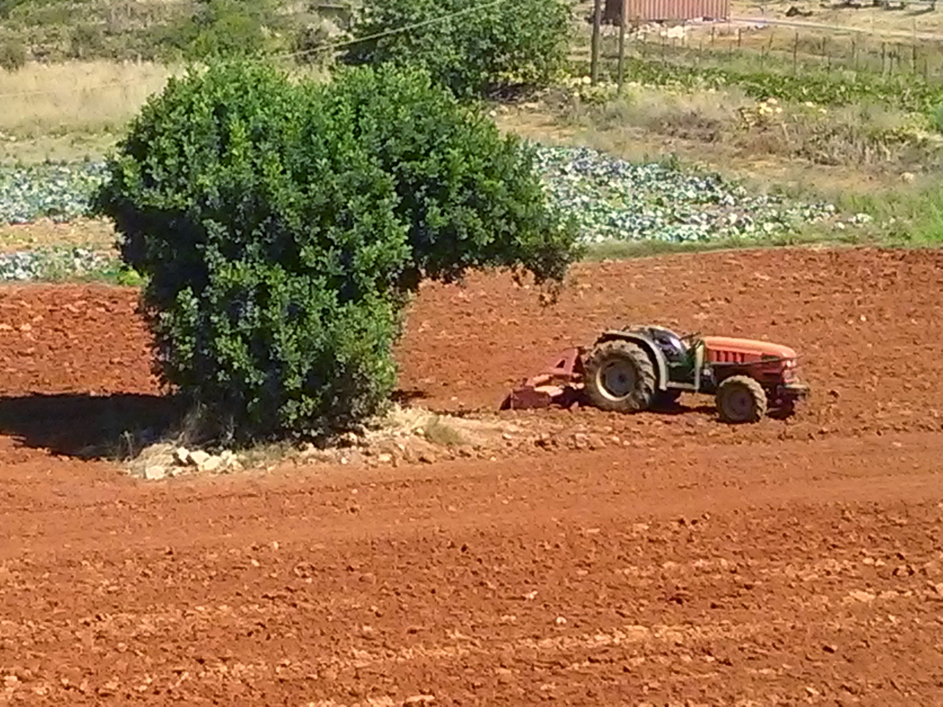 Malia 700 07, Greece